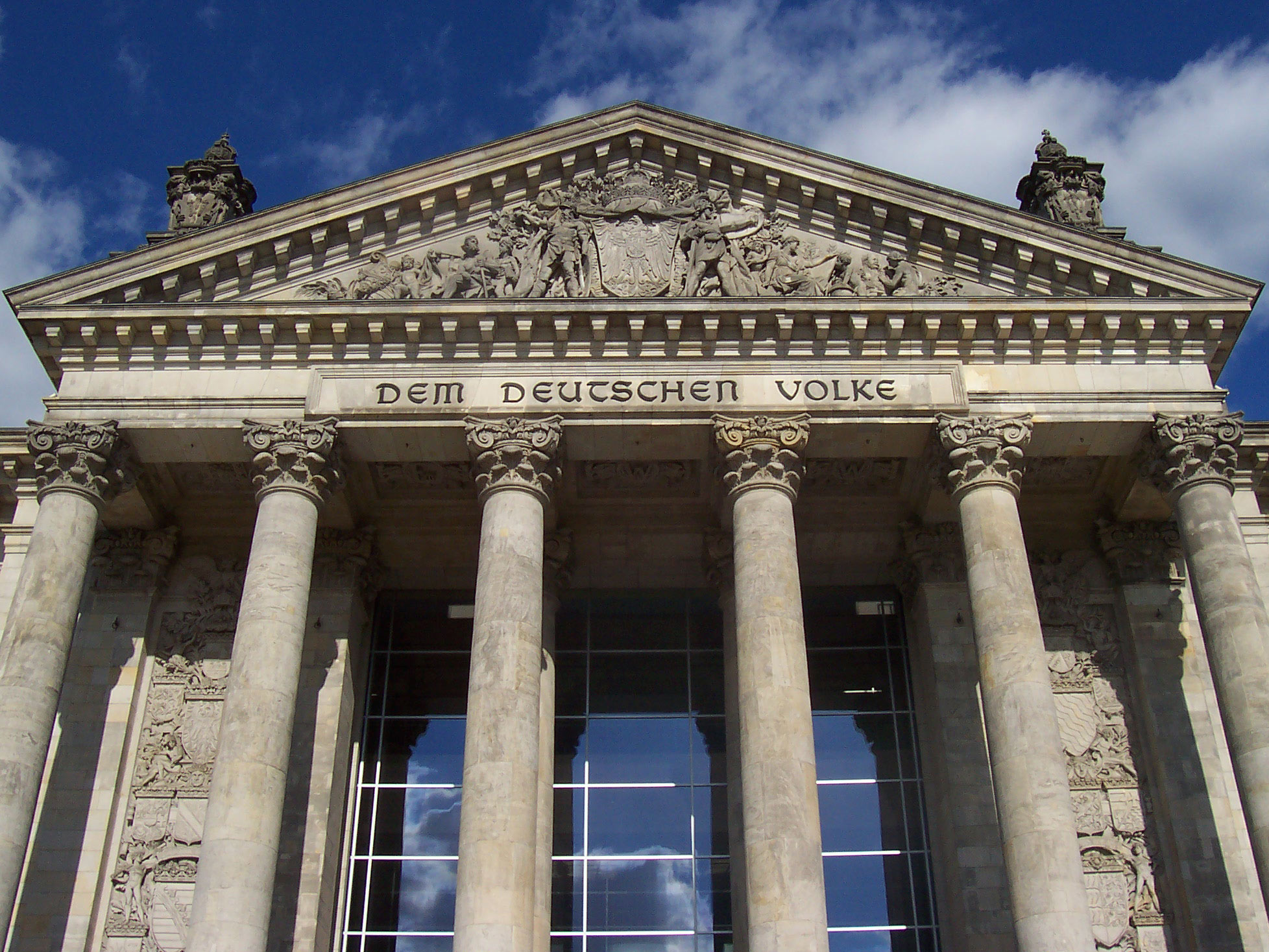 Reichstag in Berlin, main entrance